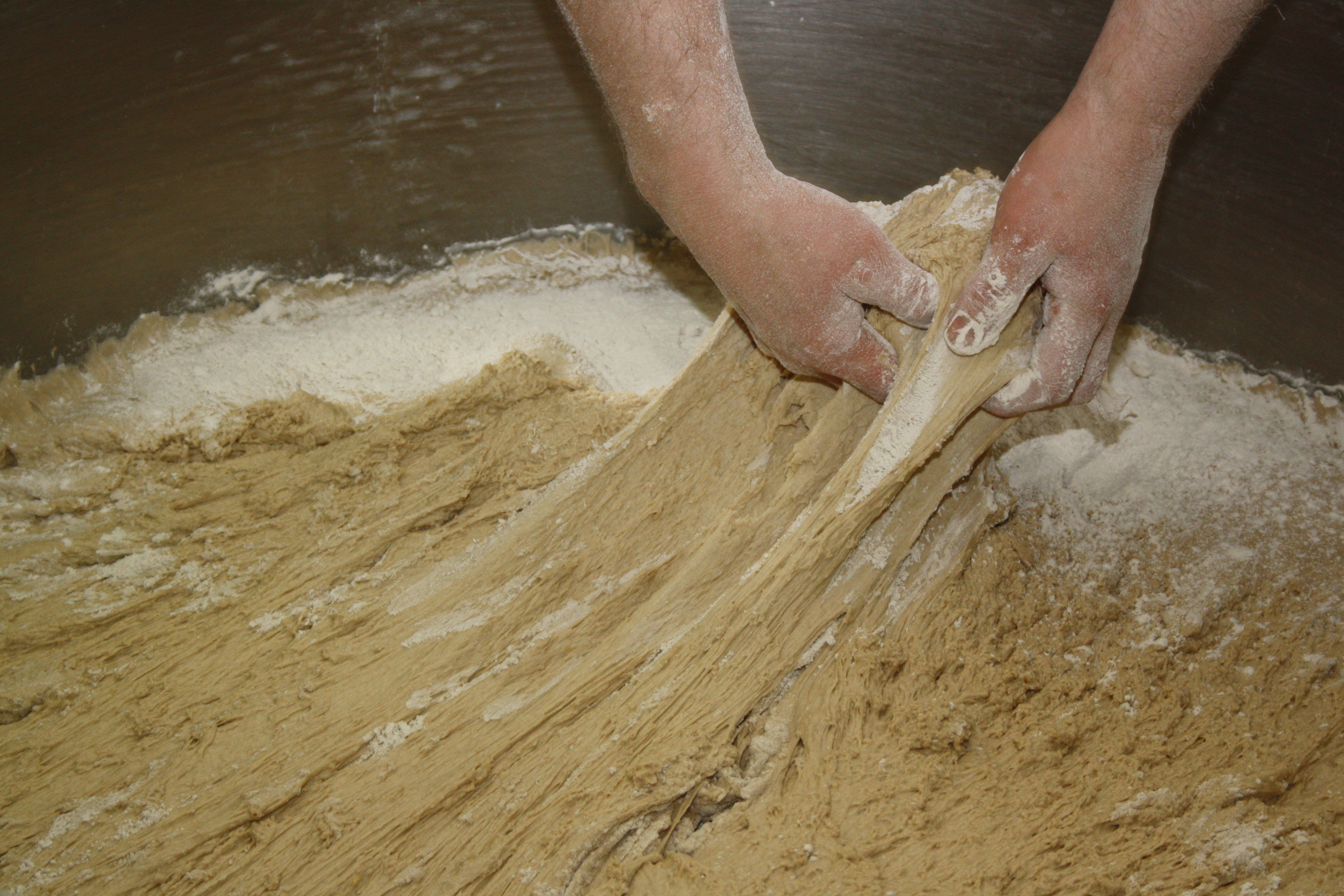 Production process of bread, Czech Republic This photograph was taken with a DSLR from WMCZ's Camera grant. This picture was taken and/or got within the scope of the 'Acquiring scientific and specialized pictures' grant.